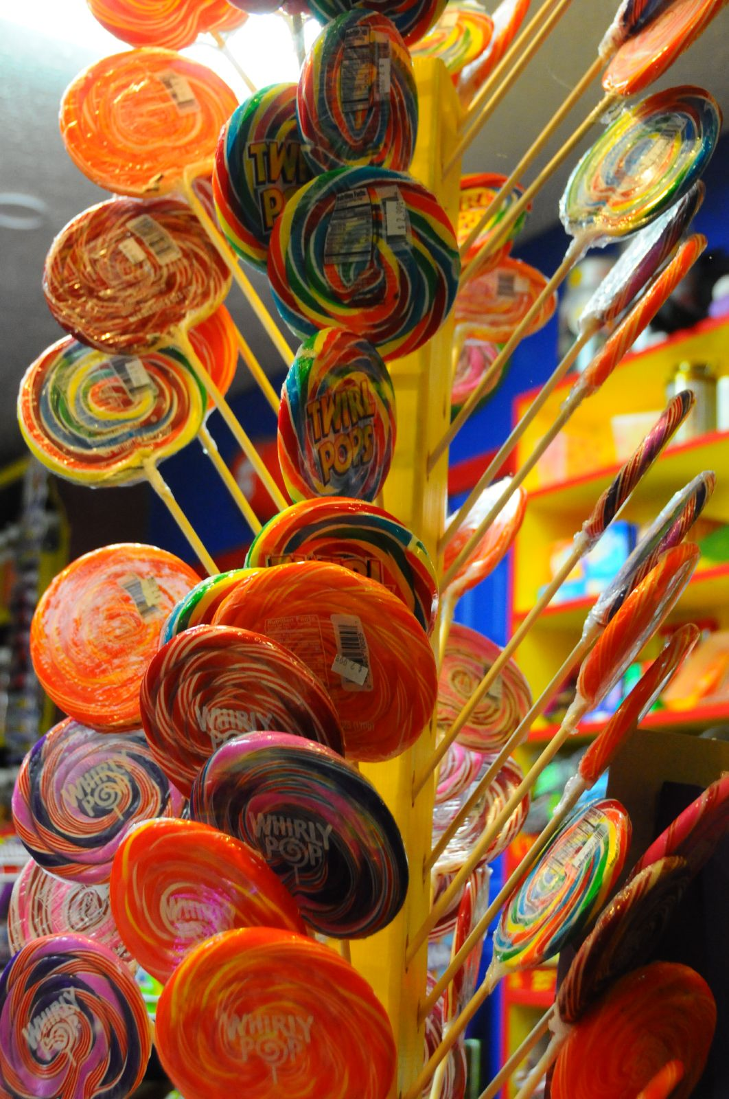 Lollipops in shop display, September 2009.